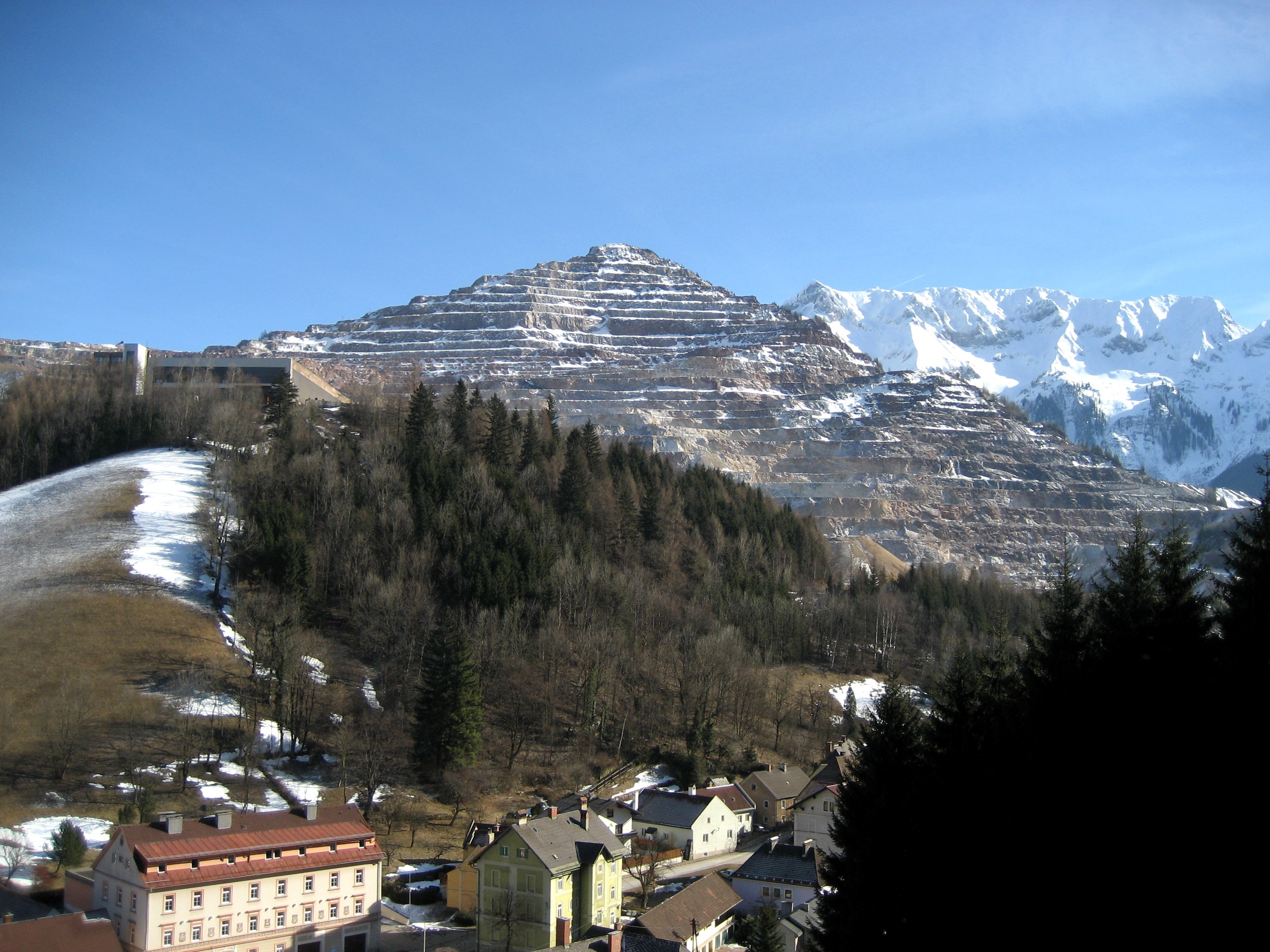 Eisenerz, a city in Styria, Austria, Europe: Erzberg. Right in the background the Eisenerzer Reichenstein